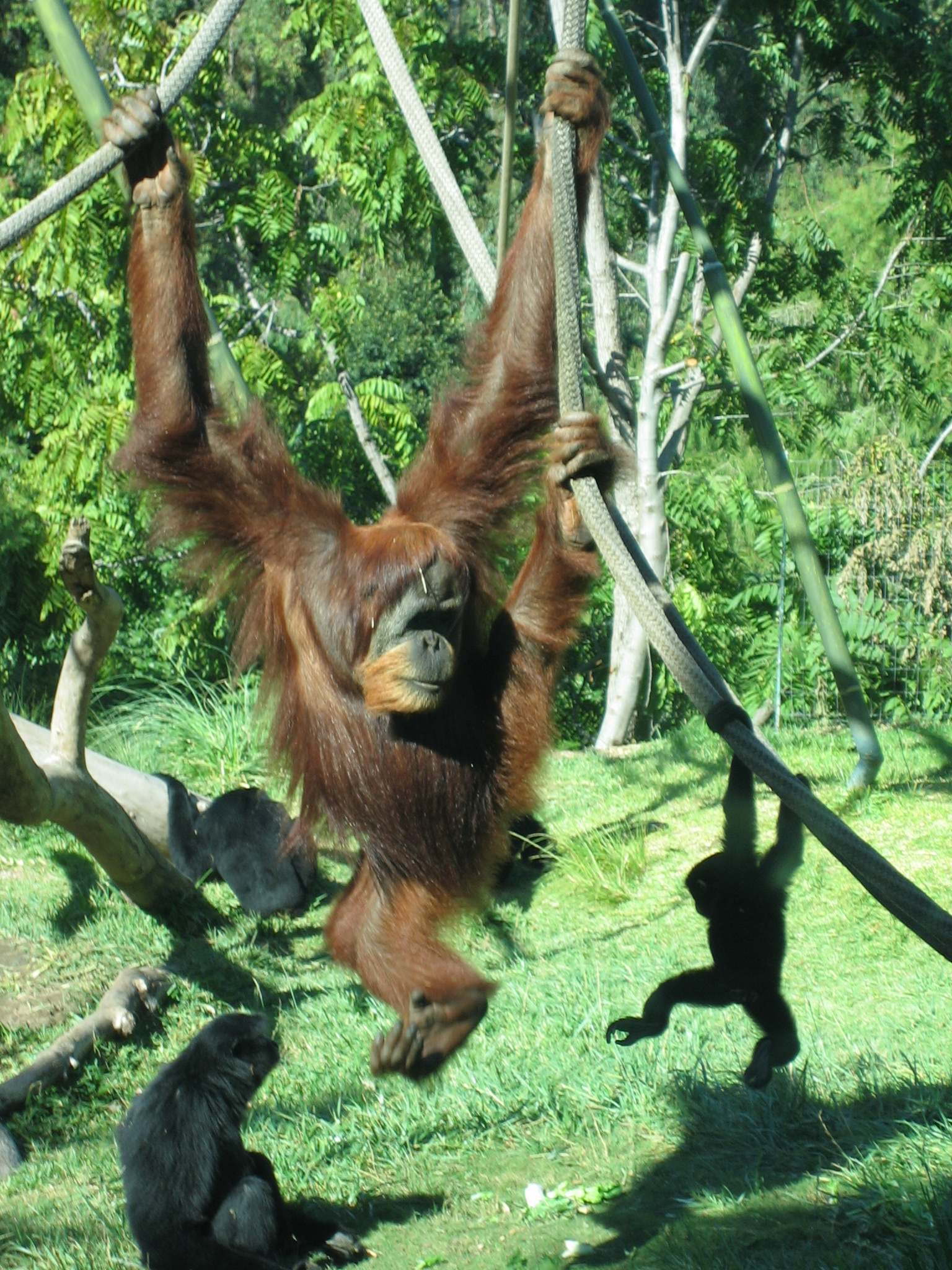 An orang-utan and some siamang in Absolutely Apes at the San Diego Zoo